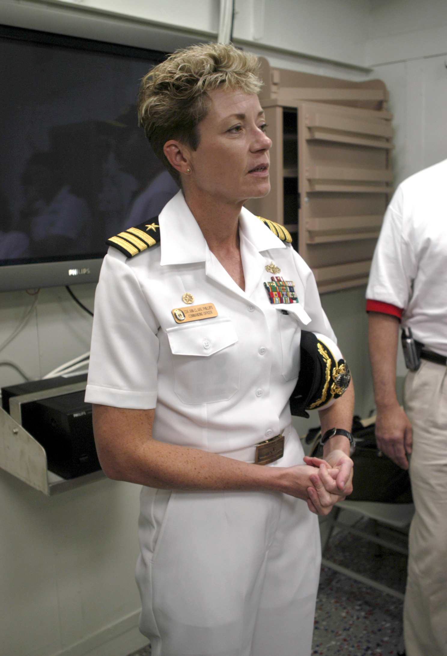 Naval Air Station (NAS) Pensacola, Fla. (Jun. 6, 2003) -- Cmdr. Ann Clair Phillips addresses guests and media aboard the Pre-commissioning Unit (PCU) Mustin (DDG 89) berthed at the Allegheny Pier on Naval Air Station (NAS) Pensacola. The guided missile destroyer will be formally commissioned in San Diego in mid-July. U.S. Navy photo by Gary Nichols. (RELEASED)